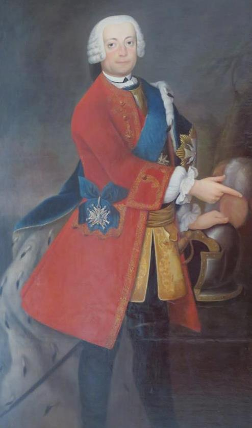 Charles Louis of Mecklenburg-Strelitz, prince of Mirow (1708-1752)